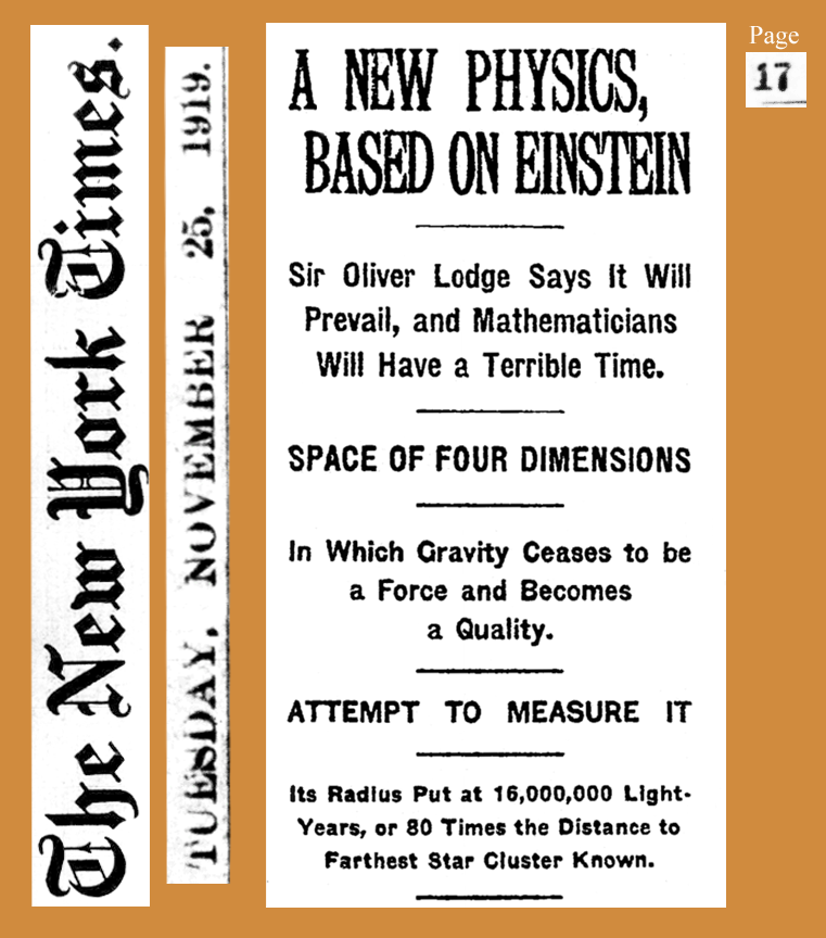 Newspaper article titled "A New Physics Based on Einstein" published in The New York Times on November 25, 1919, describing confirmation of Einstein's theory of relativity